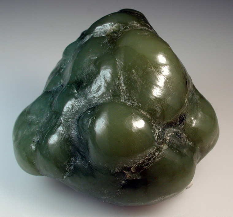 Nephrite (Size: 3.8 x 3.8 x 1.0 cm) Locality: Santa Lucia Mountains (Santa Lucia Range), Monterey County, California, USA Original description: Nephrite jade pebble, 32 x 32 x 22 mm., from the Santa Lucia Mountains in Monterey County, California. K. Nash specimen & image.